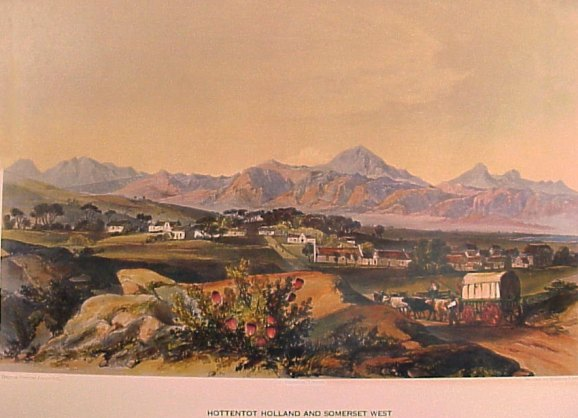 painting of south-african village of somerset west